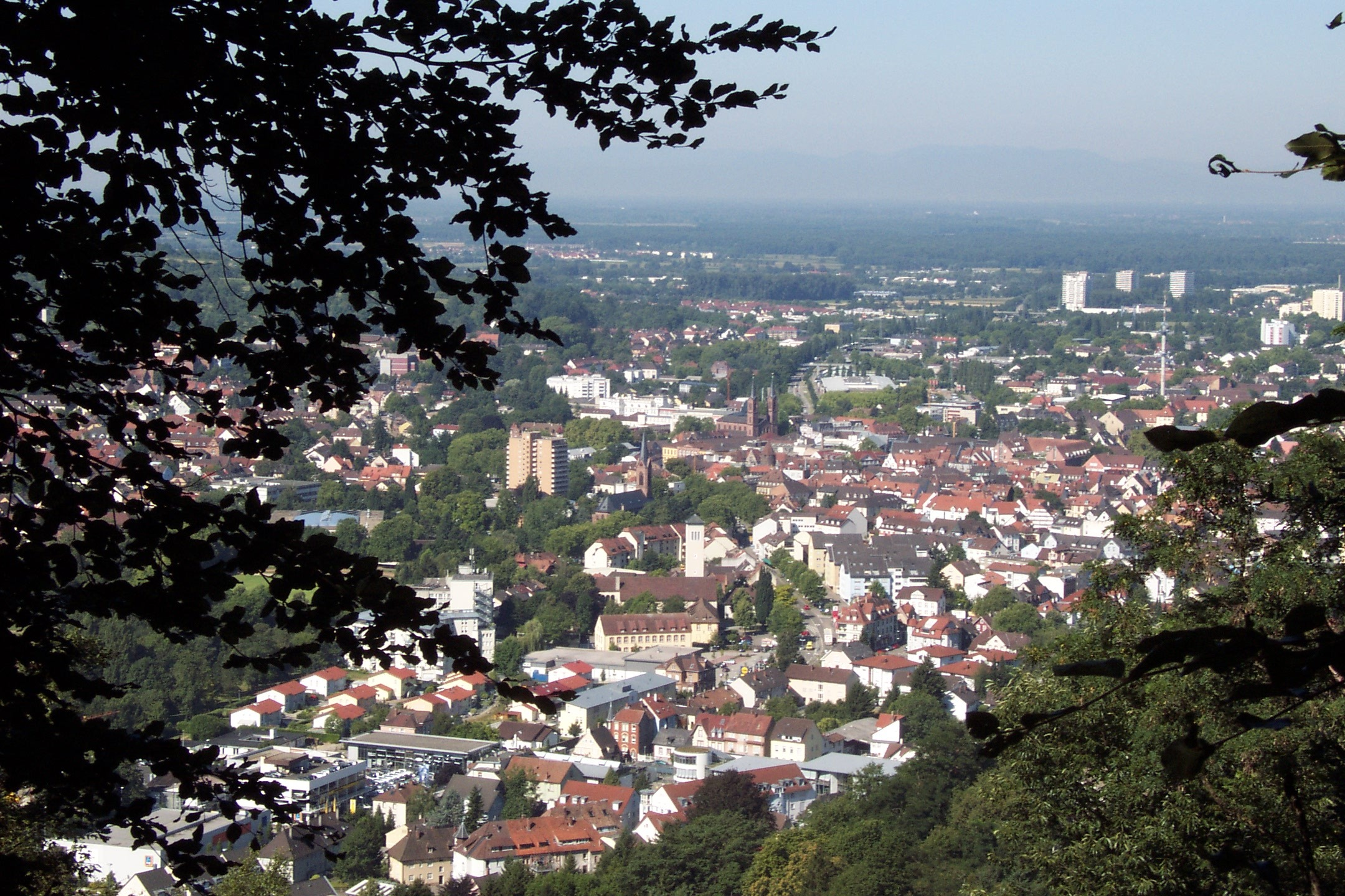 Picture of the city Lahr, view from Pipelistein, taken in summer 2010